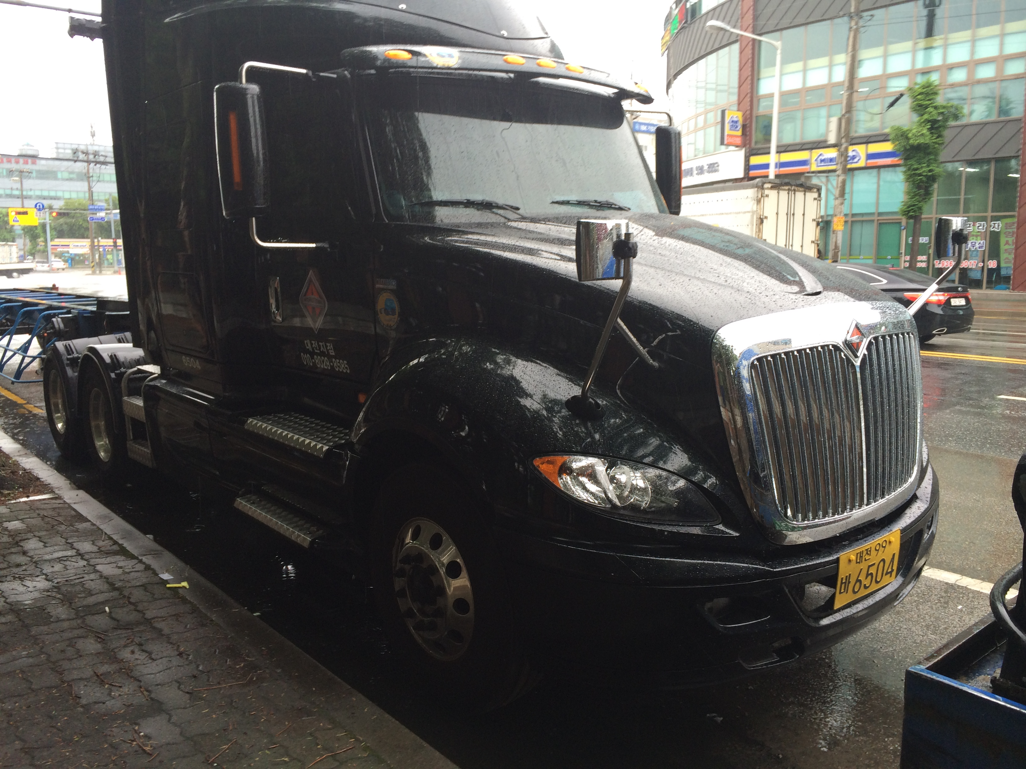 Navistar International Prostar in Daejeon, Korea